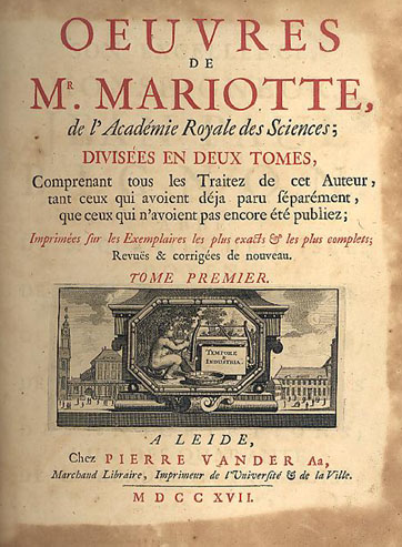 Title page of "Œuvres" ("Works") (vol. 1) by French physicist and botanist Edme Mariotte (ca 1620-1684)